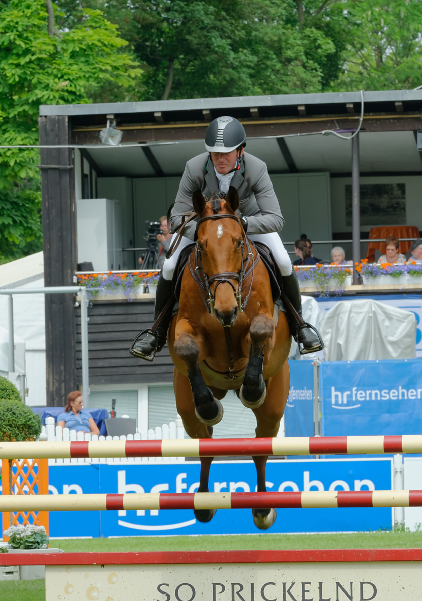 CSIYH* int. Springprüfung nach Strafpunkten und Zeit Internationales Pfingstturnier Wiesbaden 2015 The making of this document was supported by the Community-Budget of Wikimedia Germany.